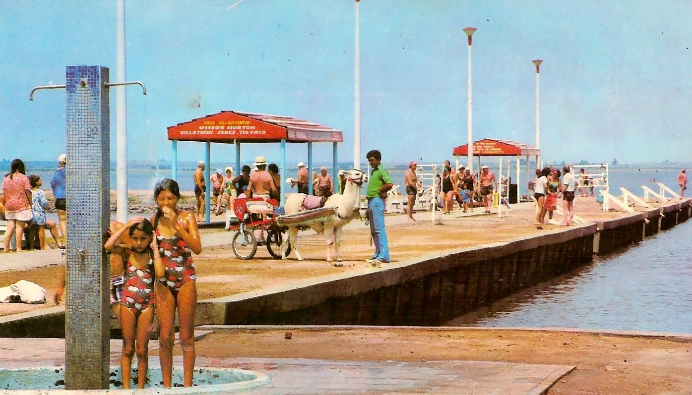 Villa Epecuén's fishing dock. Villa Epecuén was a tourist city located in Buenos Aires Province, Argentina. The city flooded in 1985 and was abandoned and still lies in ruins.